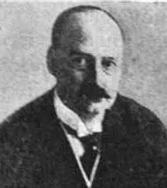 German Ambassador at Bucharest during the WWI - Hilmar von dem Bussche-Haddenhausen